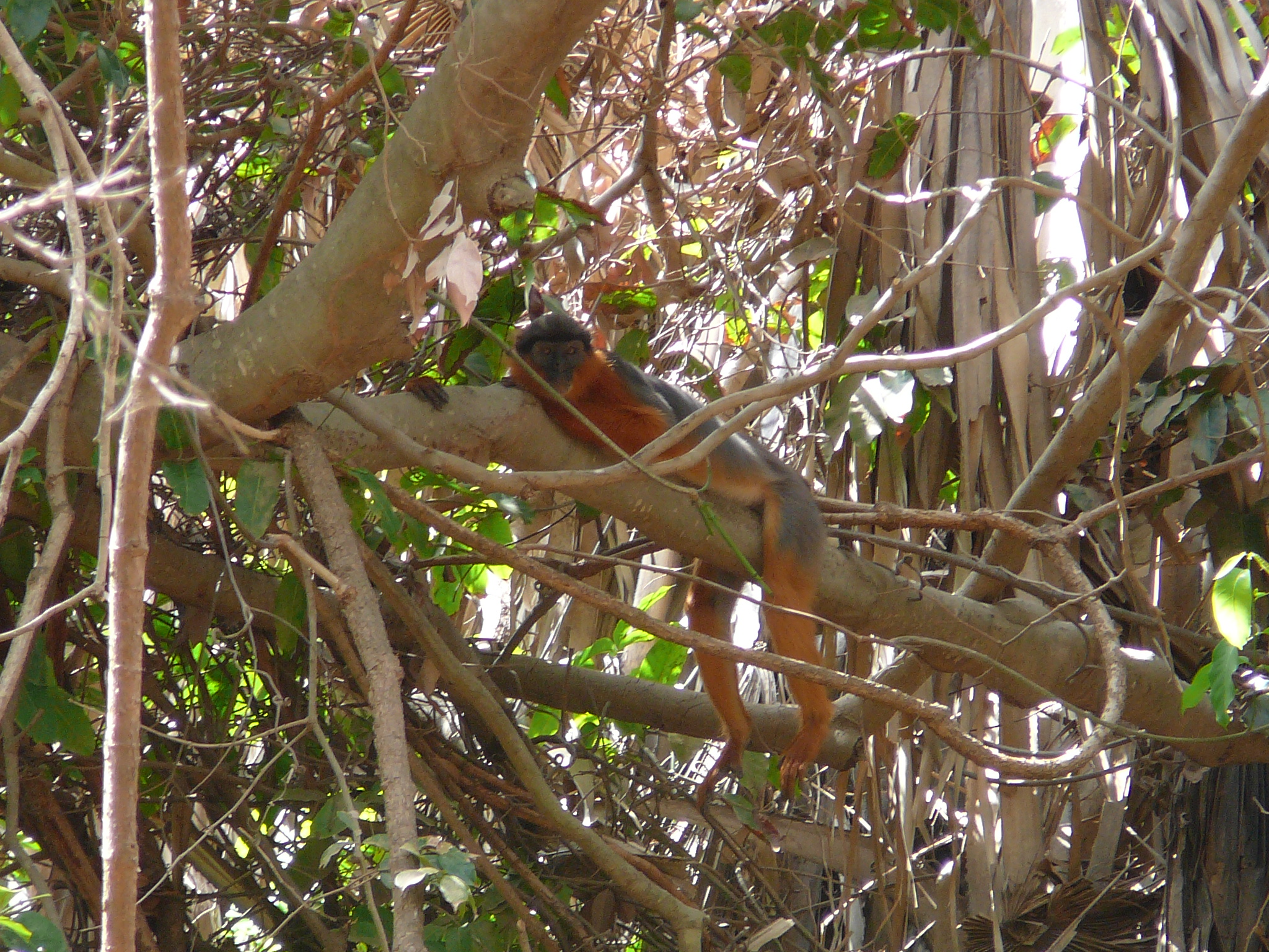 Temminck's red colobus